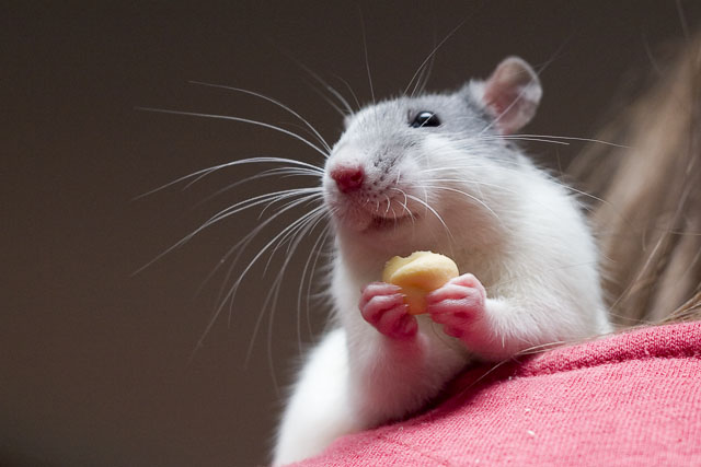 Author AlexK100 Picture of hucky rat. (front)